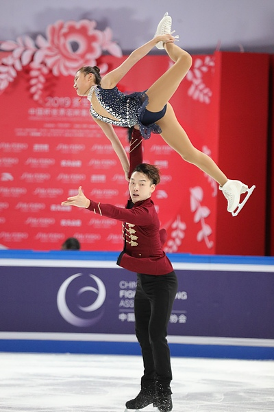 Tang Feiyao and Yang Yongchao - 2019 Cup of China